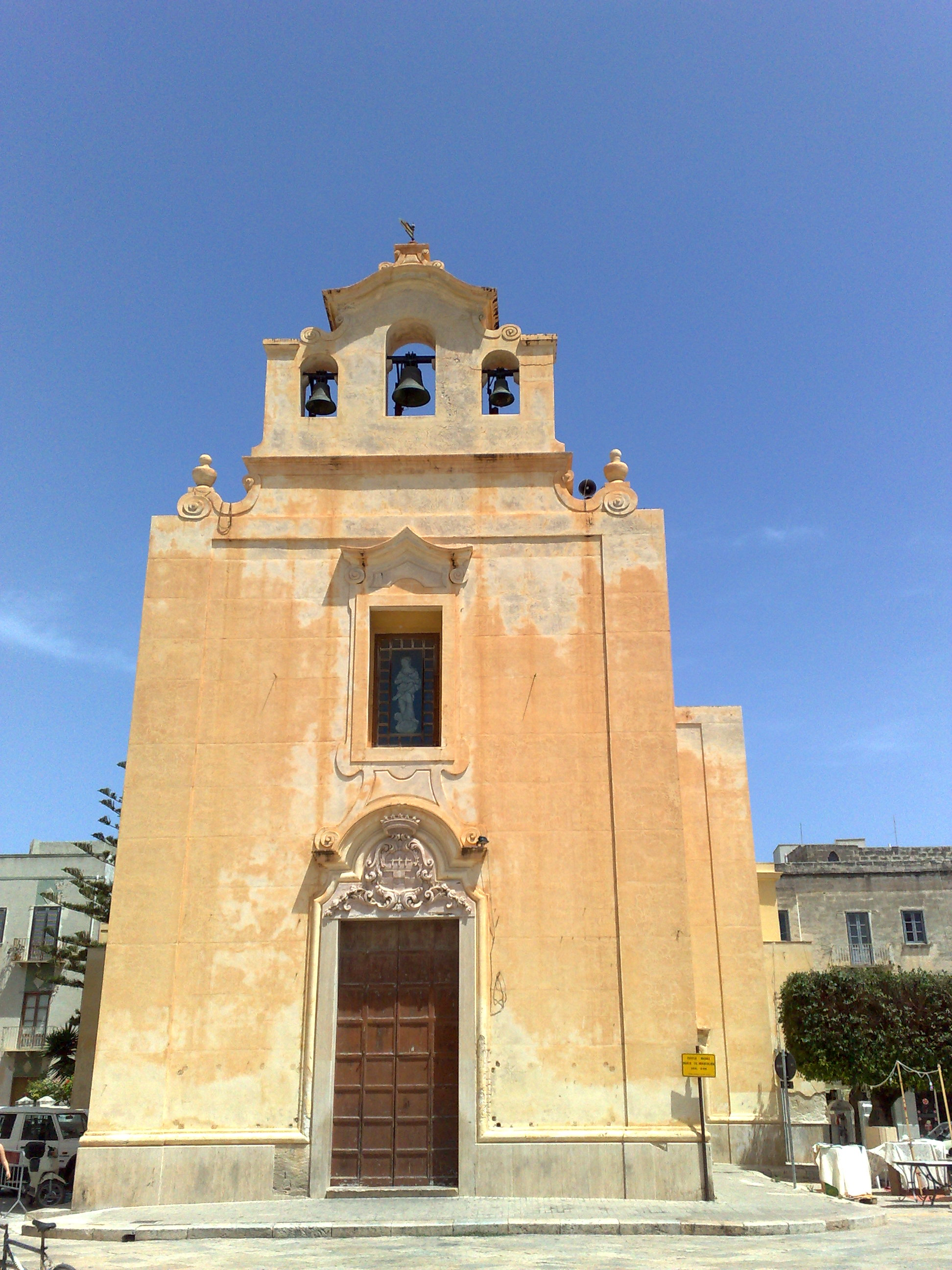 Church in Favignana